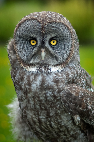 Great Grey Owl, Manitoba, Canada